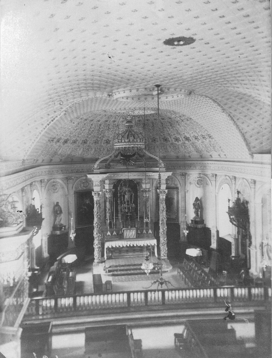 Intérieur de la cathédrale de l'Assomption de Trois-Rivières vers 1890.